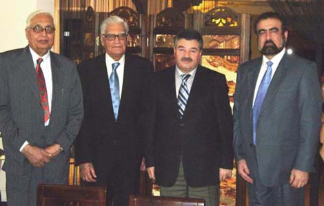 From left to right: Dr. Ahsan Mubarak – Director of Center for Earthquakes Studies (Pakistan), Dr. Ishfag Ahmad – State Adviser of Planning Committee of Pakistan as a Federal Minister, President of Pakistan Academy of Sciences, Dr. Eynulla Madatov – Ambassador of Republic of Azerbaijan in Pakistan, Prof.Dr. Elchin Khalilov – General Director of Global Network for the Forecasting of Earthquakes (Azerbaijan). Islamabad, 2009.